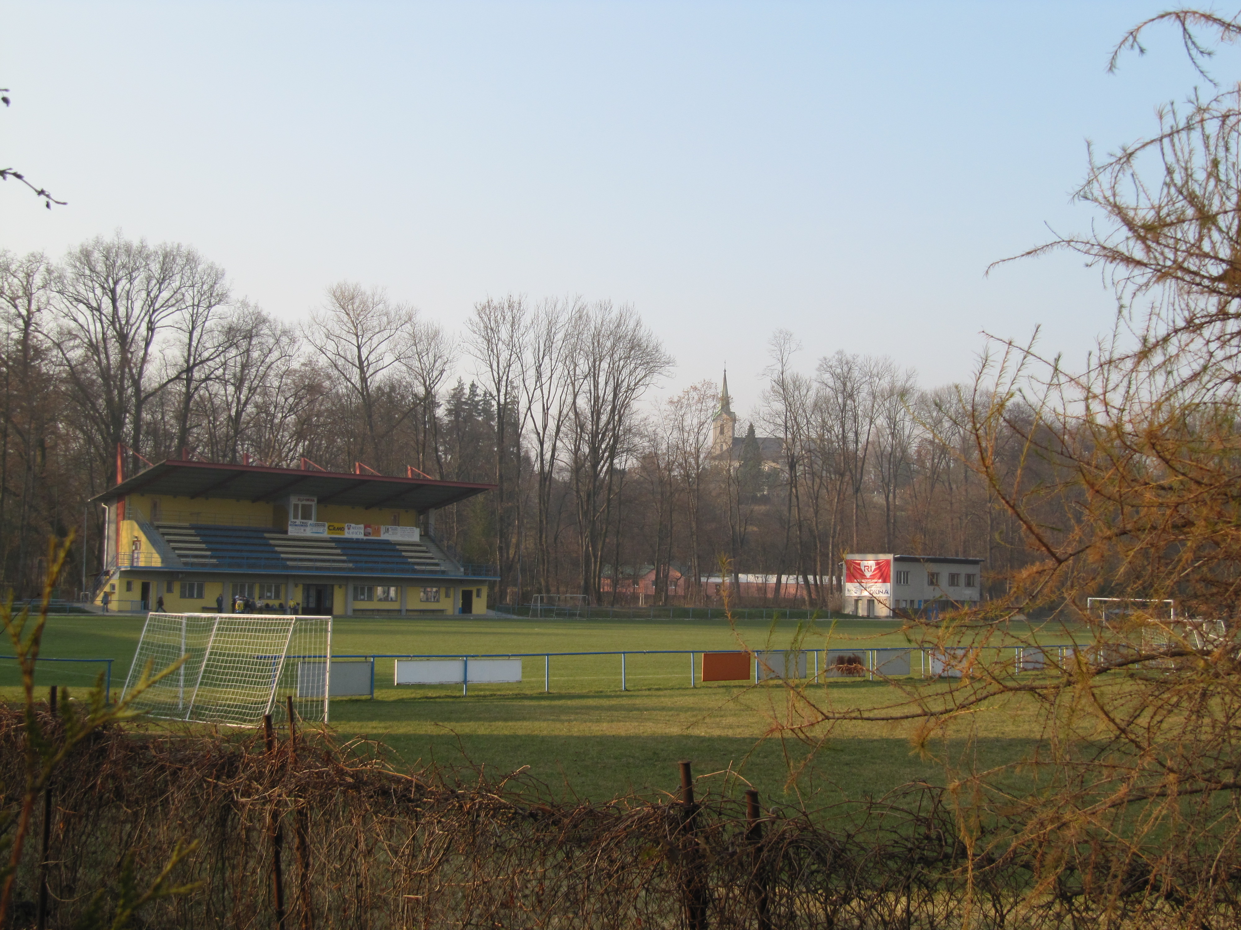 Slavičín in Zlín District, Czech Republic. Football stadium.